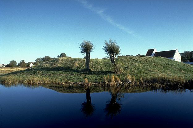 The ruins after the castle of Skanor, Sweden.